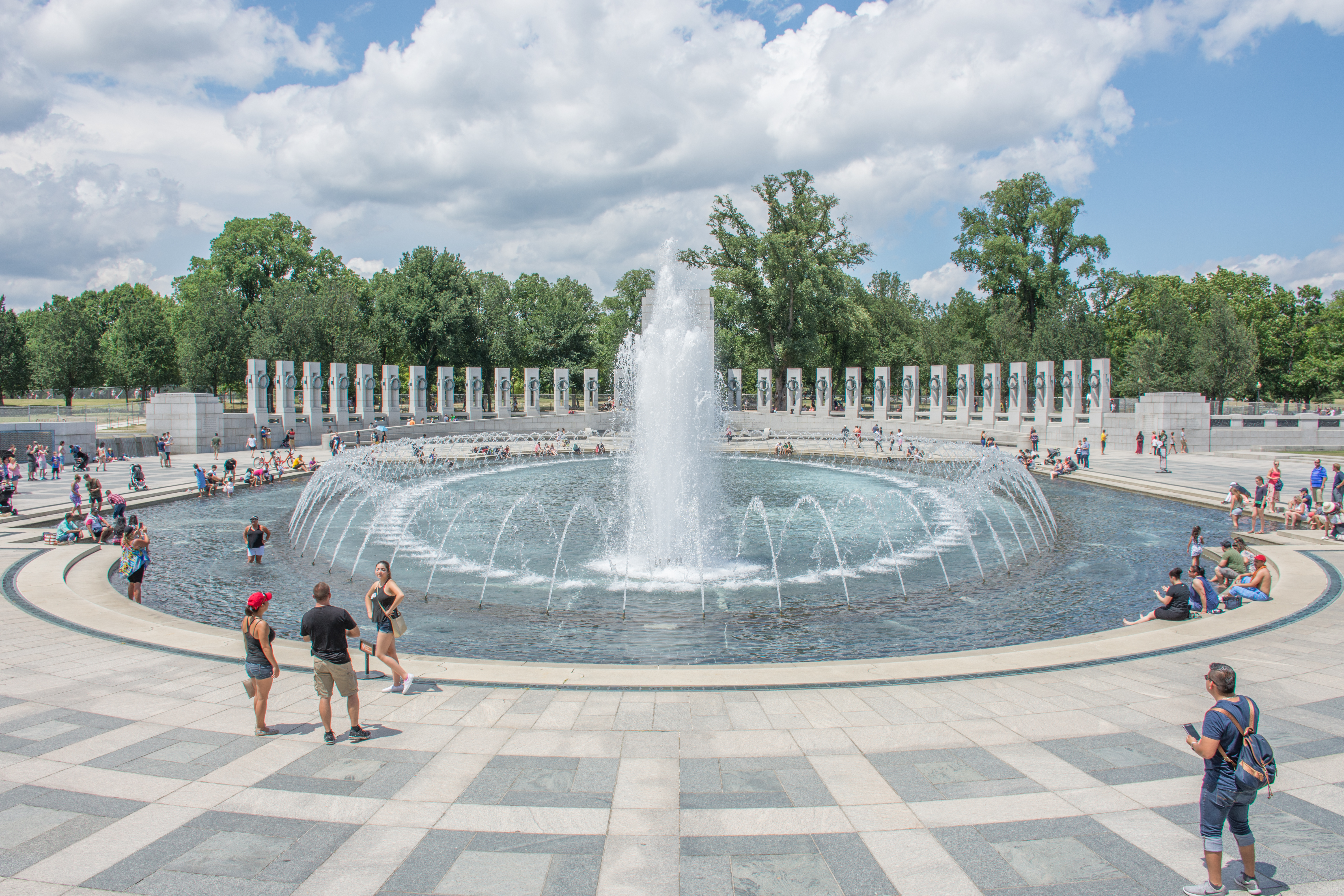 The National World War II Memorial in Washington, D.C., July 2017.